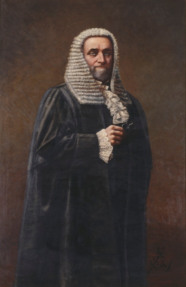 Portrait of Peter Lalor Speaker of the House in the Victorian Legislative Assembly.